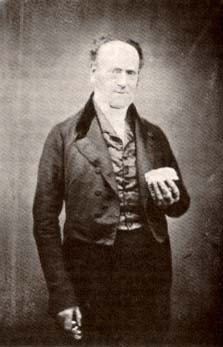 Robert Edmond Grant(1793-1874), born in Edinburgh and educated at Edinburgh University as a doctor, became one of the foremost biologists of the early 19th century at Edinburgh and subsequently a professor at London University, particularly noted for his influence on Charles Darwin.